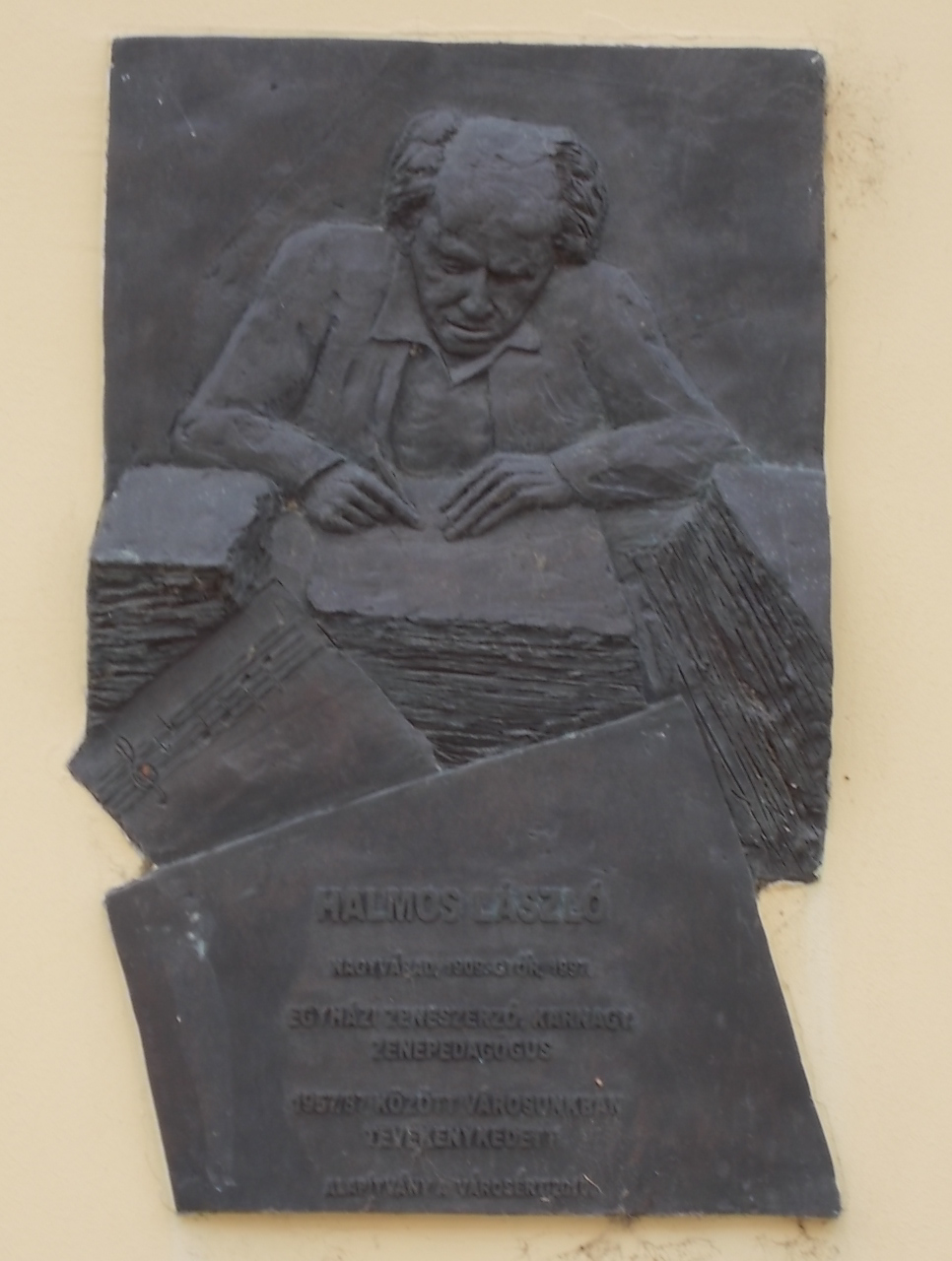 Plaque-relief of László Halmos by Zsolt Áron Majoros (2010) László Halmos composer, teacher (1909-1997). So the artpiece shows a composer composing or teacher during the test/essay checking. - Szent László Square an Városház Street cnr., Magyaróvár neighborhood, Mosonmagyaróvár, Győr-Moson-Sopron County, Hungary.